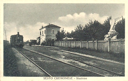 Sesto Cremonese railway station, 1930